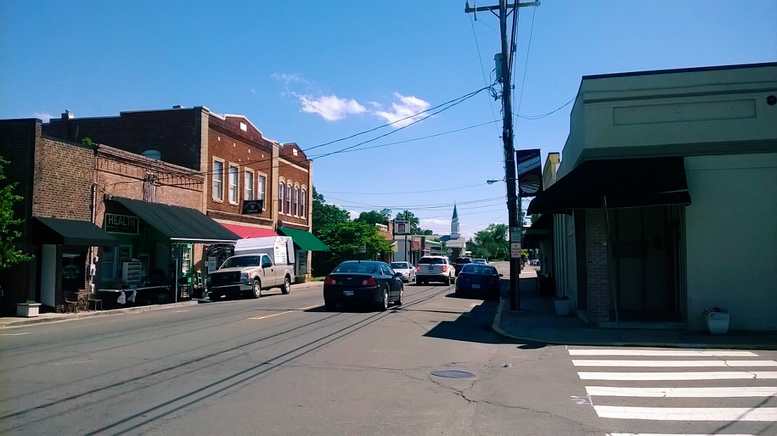 Downtown Creedmoor, North Carolina